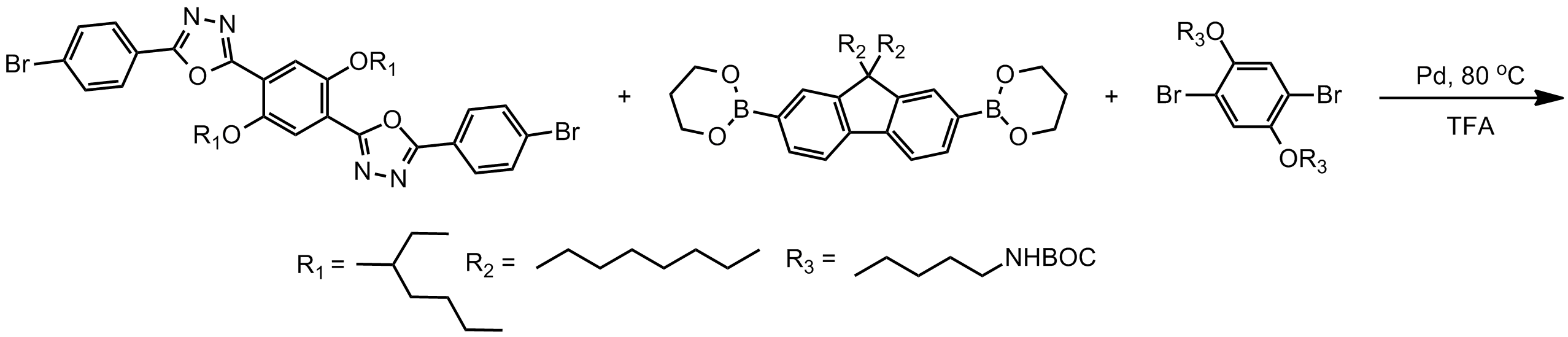 This is the synthetic route used to make the polymer in File:Polyfluorene derivative luminescence.png and File:Polyfluorene with oxadiazole.png